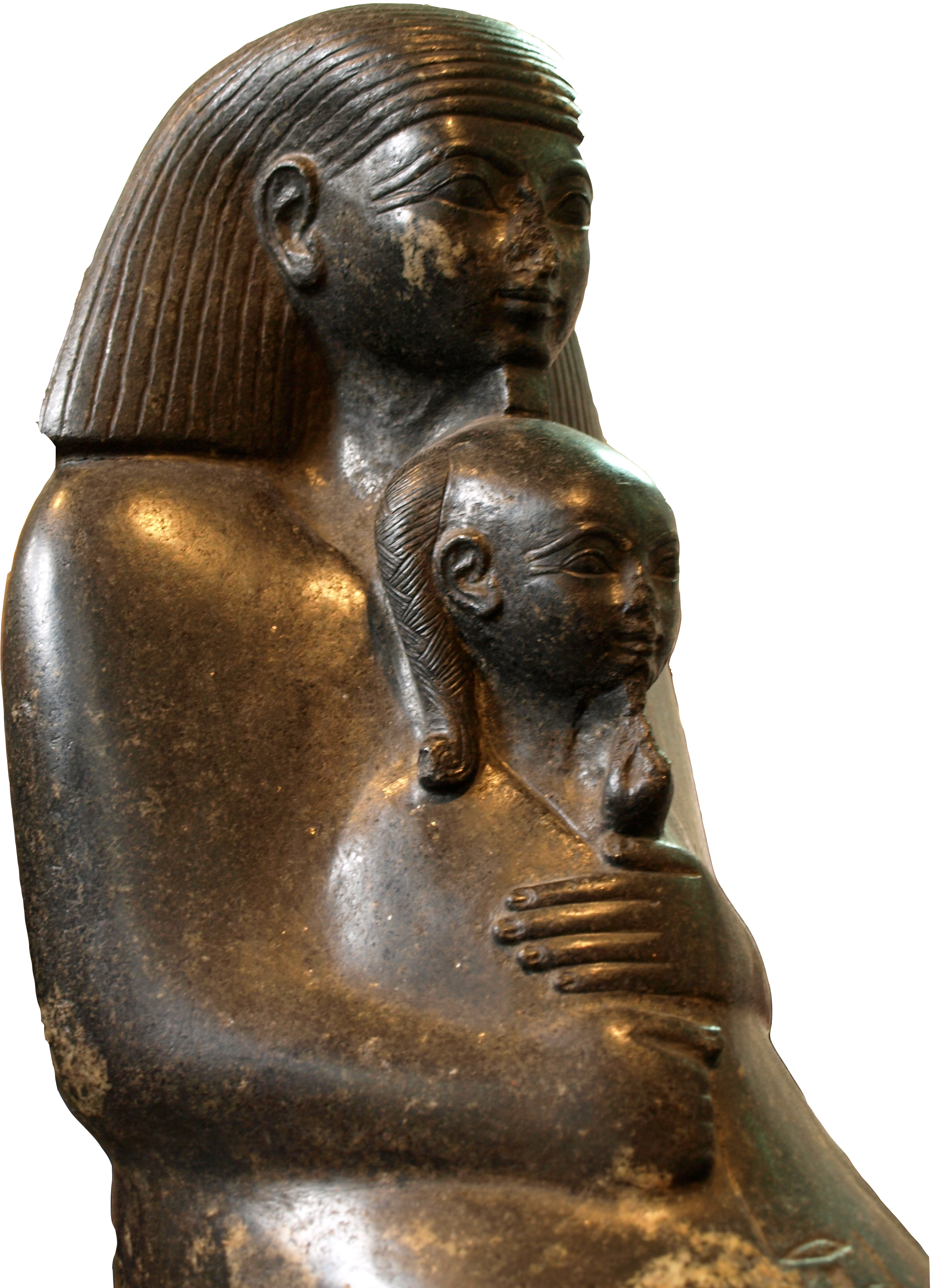 Left profile view of a block statue of Senenmut and of Neferura. Background knocked out for clarity.